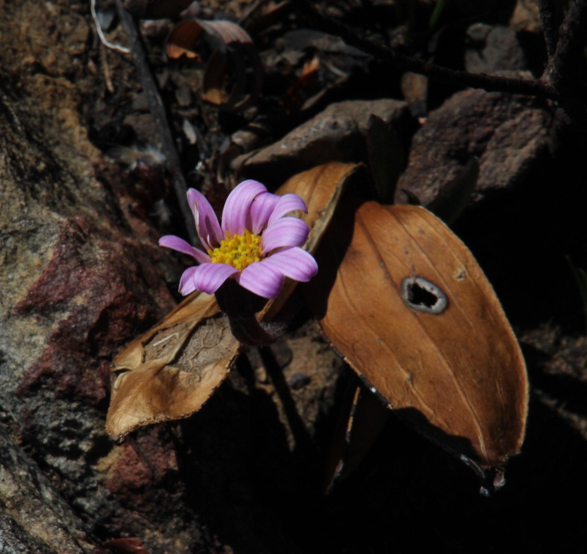 A purple fire daisy, Mairia coriacea, photographed by Tony Rebelo, on 5 March 2017, at Three Sisters Trail above Fairy Glen, near Kleinmond, Caledon County, Western Cape province of South Africa